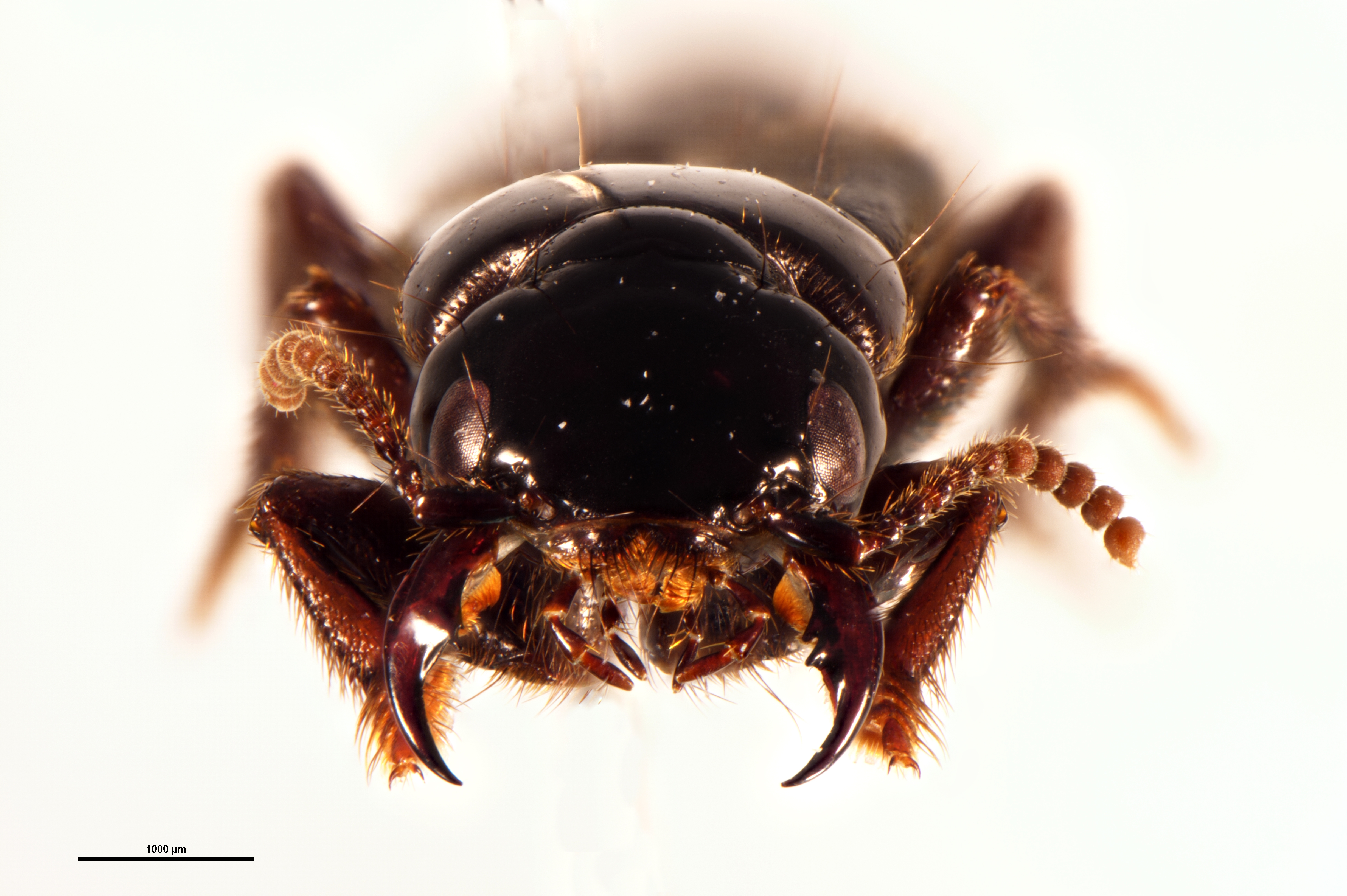 Holotype of the flightless staphylinid beetle Creophilus rekohuensis", described by David Clarke in 2011 from a seabird burrow on Rangatira Island, in the Chatham Islands.